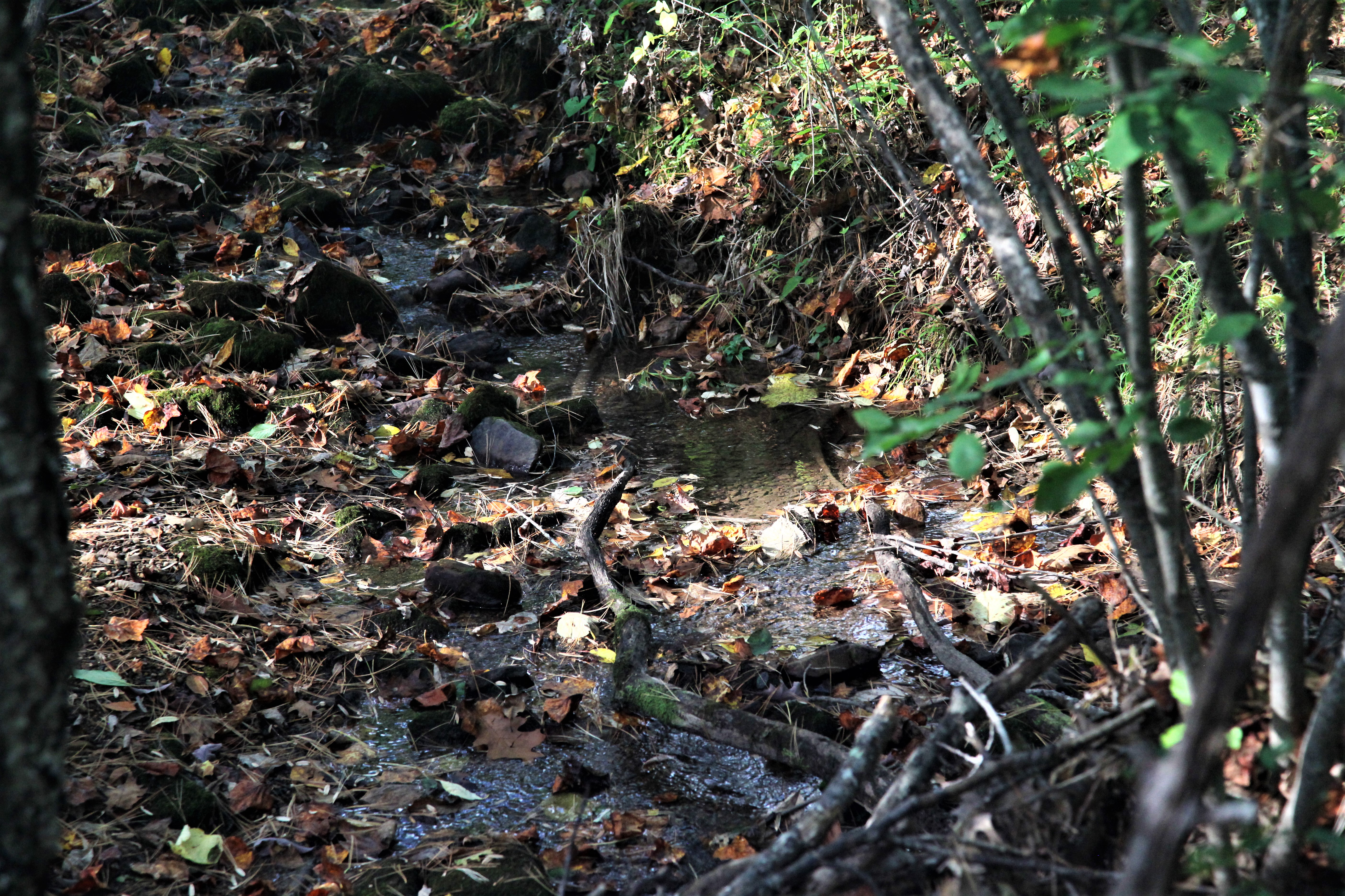 Lipes Branch, at Va 617, 15 oct 17